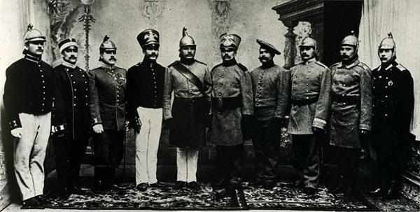 Uniforms of firefighters of Russian Empire